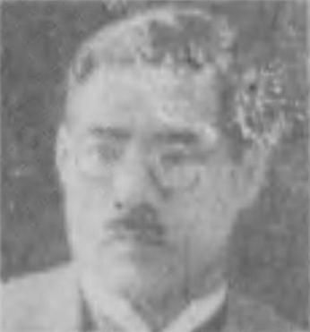 A Japanese judoka, Taichi Kurata.